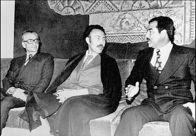 Mohammad Reza Pahlavi met Houari Boumediène and Saddam Hussein in Algeria at 1975 for register 1975 Algiers Agreement.